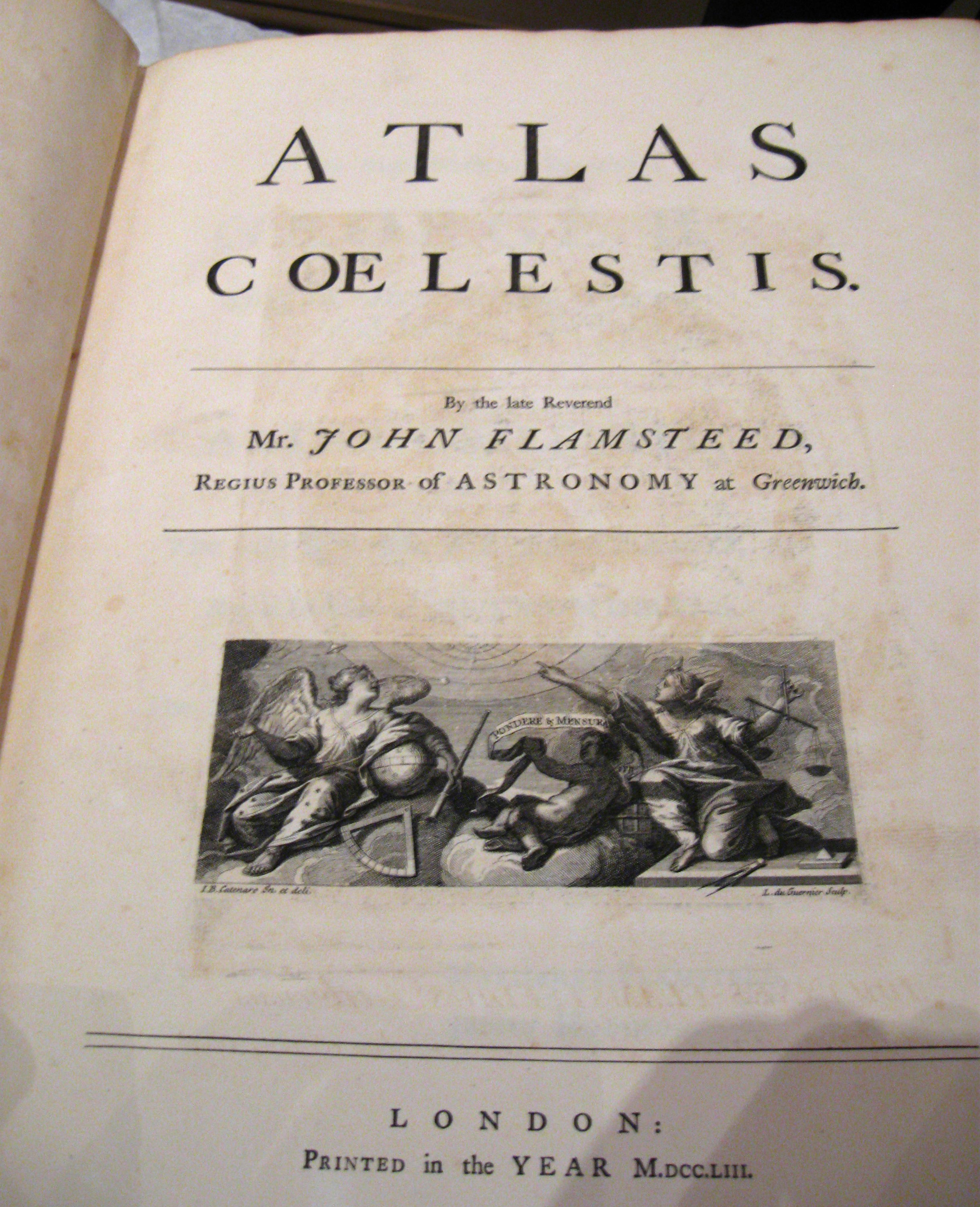 In 1729 his John Flamsteed's widow published his Atlas Coelestis, assisted by Joseph Crosthwait and Abraham Sharp. \this copy is owned by Derby Museum and Art Gallery. The picture will be useful for this meeting. on April 9th 2011.